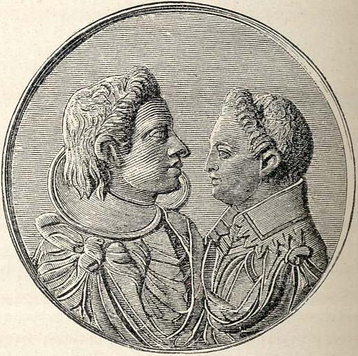 King Gustav II Adolph of Sweden (as a younger man) and his brother Prince Carl Philip